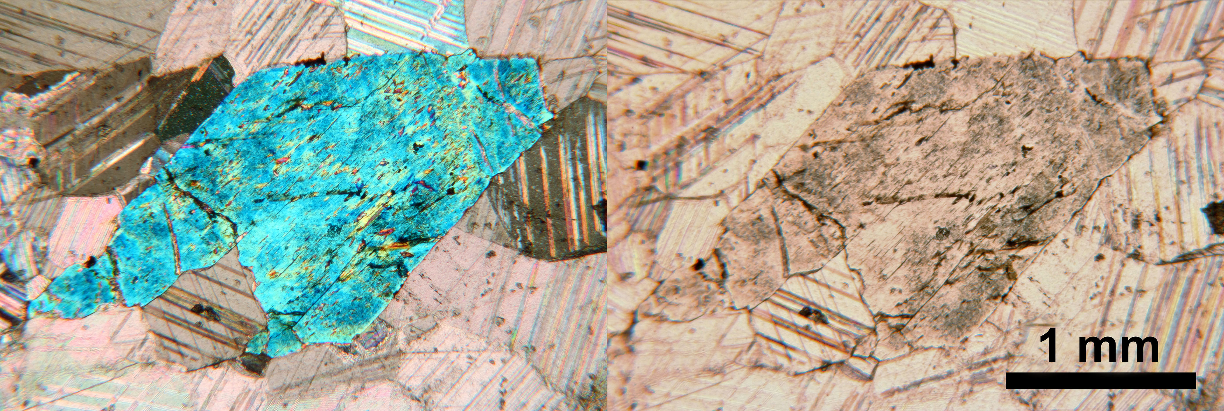 Optical mineralogy: Photomicrographs of thin section from Siilinjärvi apatite ore. Almost euhedral amphibole crystal in carbonate groundmass (thin section R636 63.35-63.45). Photomicrograph from thin section in cross and plane polarised light.